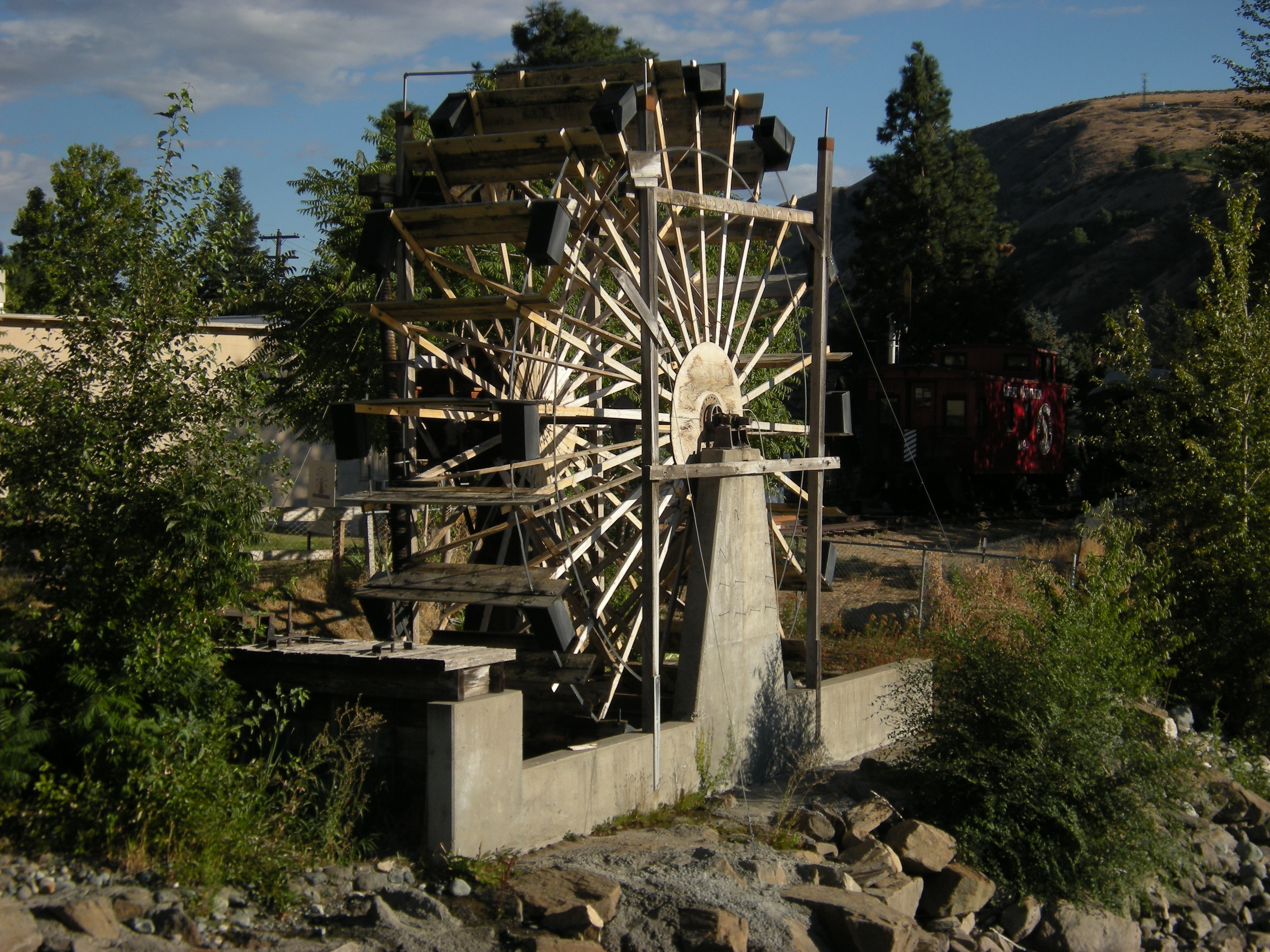 Burbank Homestead Waterwheel, also known as Captain Stoffel Waterwheel, Cashmere, Washington. The waterwheel, now located outside the local museum, is on the National Register of Historic Places.